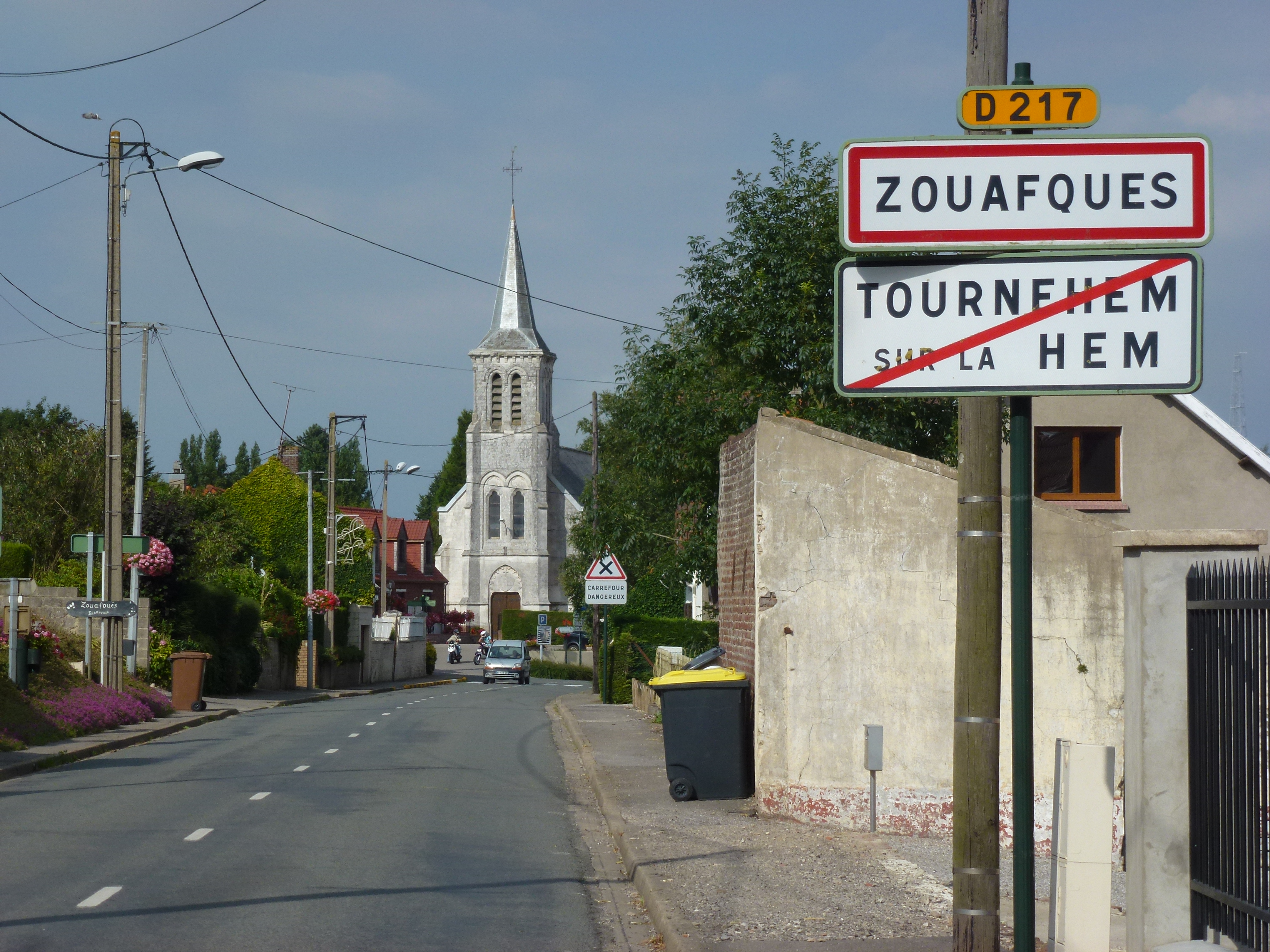 Zouafques ~ Tournehem-sur-la-Hem (Pas-de-Calais) city limit signs